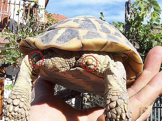 Testudo hermanni hermanni with spurs. Liguria , Italia